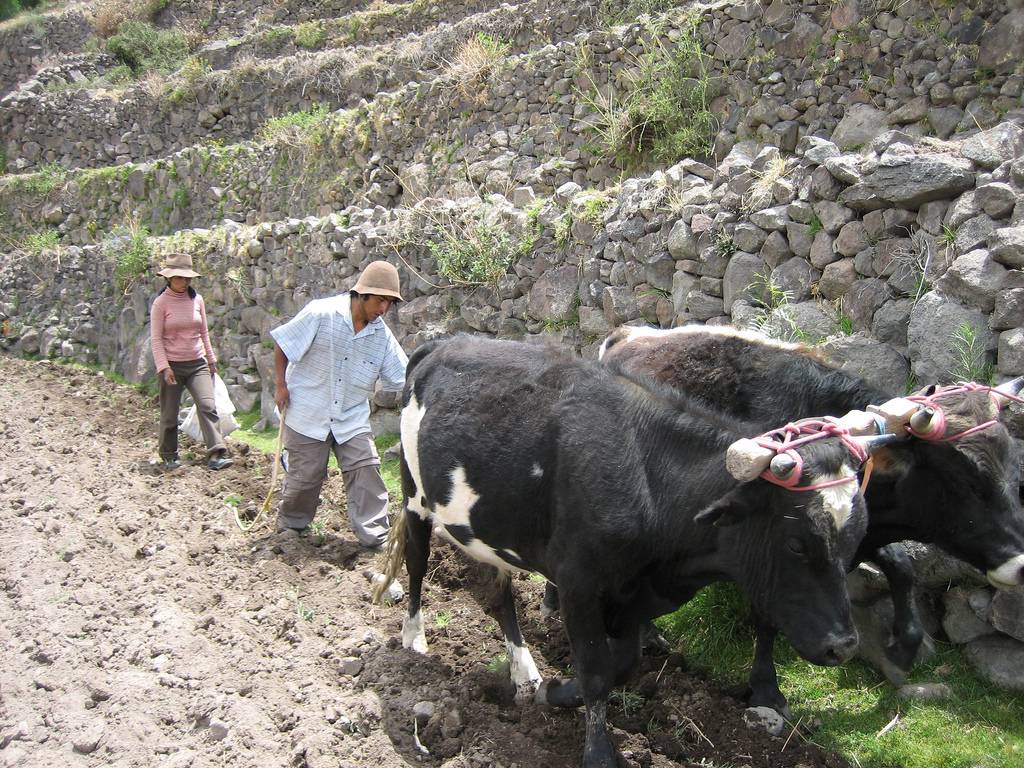 Young farmers sow a mixture of corn and beans in a terrace in Andamarca, Valley Sondondo, Perú. Conquistadors brought plows and cattle when they arrived in South America, and plows replaced the traditional chaquitaclla in preparing the soil to be planted.